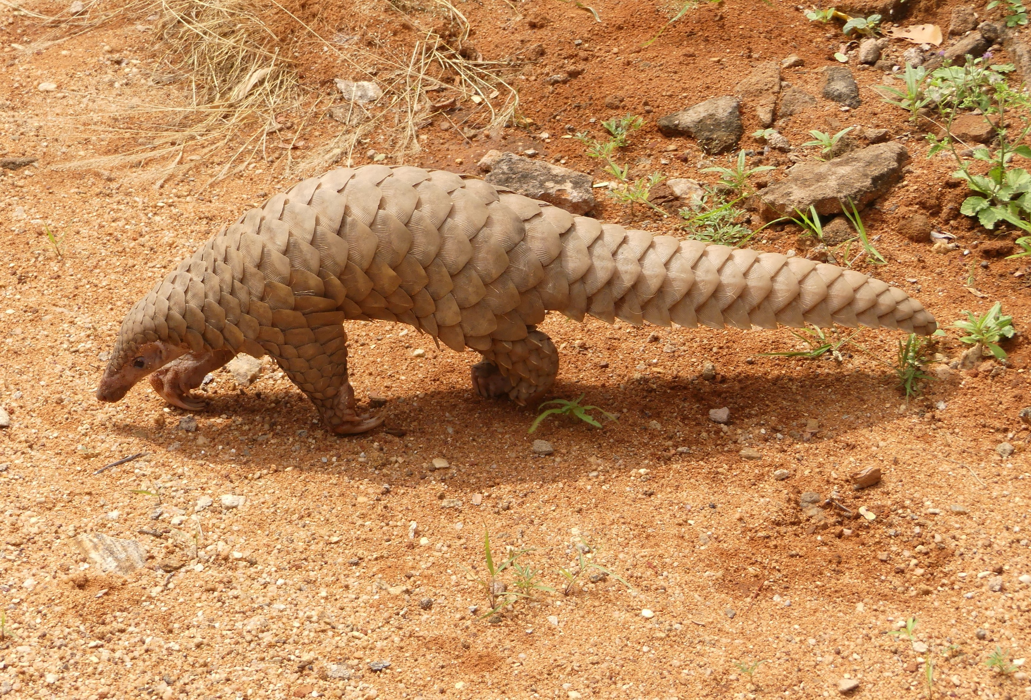 Pangolin brought by the villagers to the Range office, KMTR